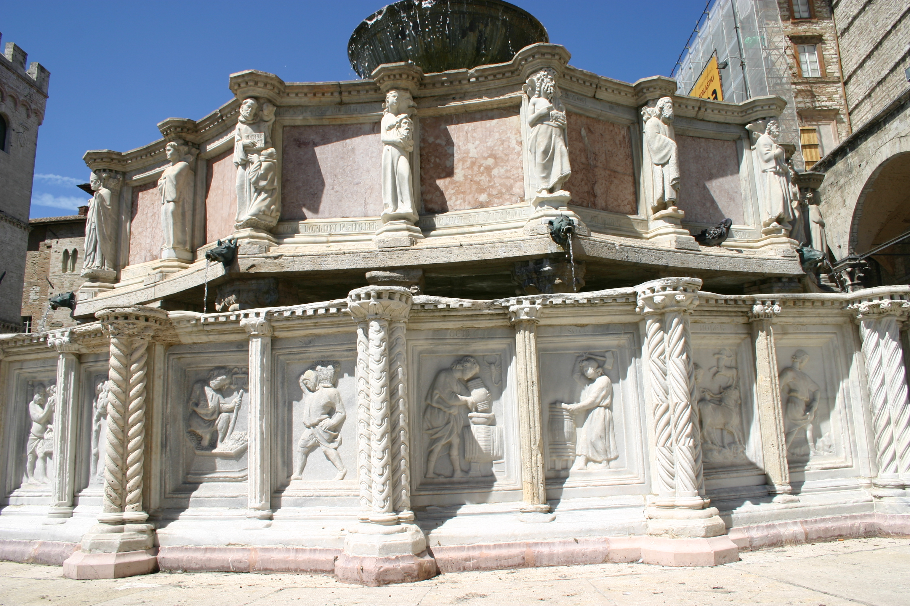 Perugia, the Fontana Maggiore (Main Fountain), sculpted after 1275 by Nicola Pisano and Giovanni Pisano. Picture by Giovanni Dall'Orto, August 6, 2006.